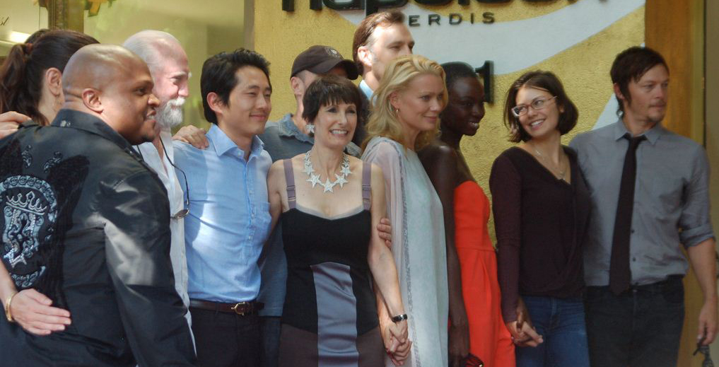 Gale Anne Hurd with the cast of The Walking Dead at a ceremony for Hurd to receive a star on the Hollywood Walk of Fame.